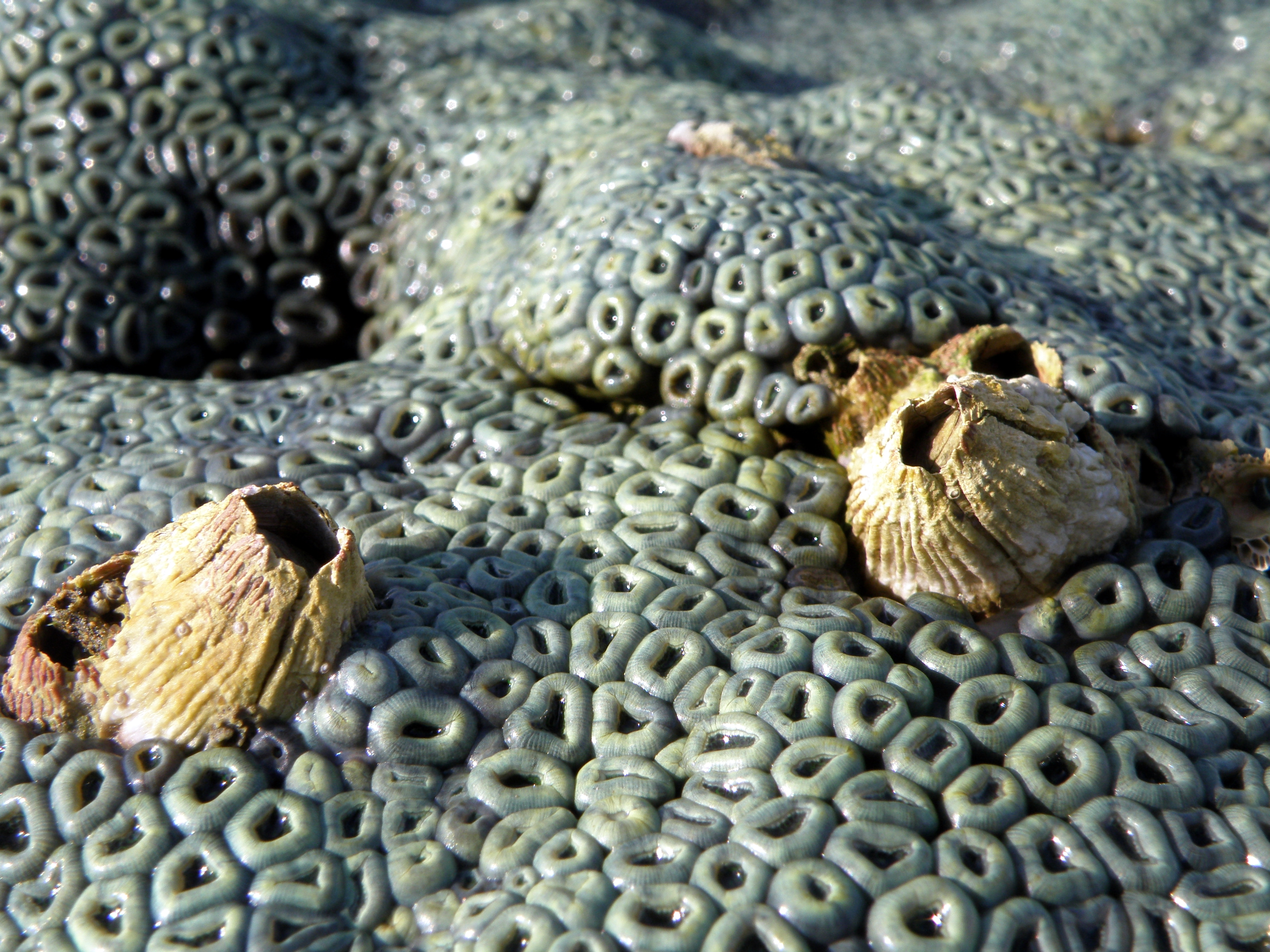 “The photo was taken during my field work of Ph.D research work on intertidal community structure. The captured moment shows high competition for space in two different invertebrate community -zoanthid (Cnidarian) and barnacle (Arthropod). Zoanthid is a colonial Cnidarian found in intertidal zone to deep sea water while barnacles are sessile, but these both animals are benthos and require space for settlement. The present picture indicates the expansion of zoanthids around previously settled live barnacles and they almost cover some small ones. Now, juveniles of barnacles will not get the space for settlement and zoanthid polyps will continue expanding by budding and will cover and grown on all live barnacles.”